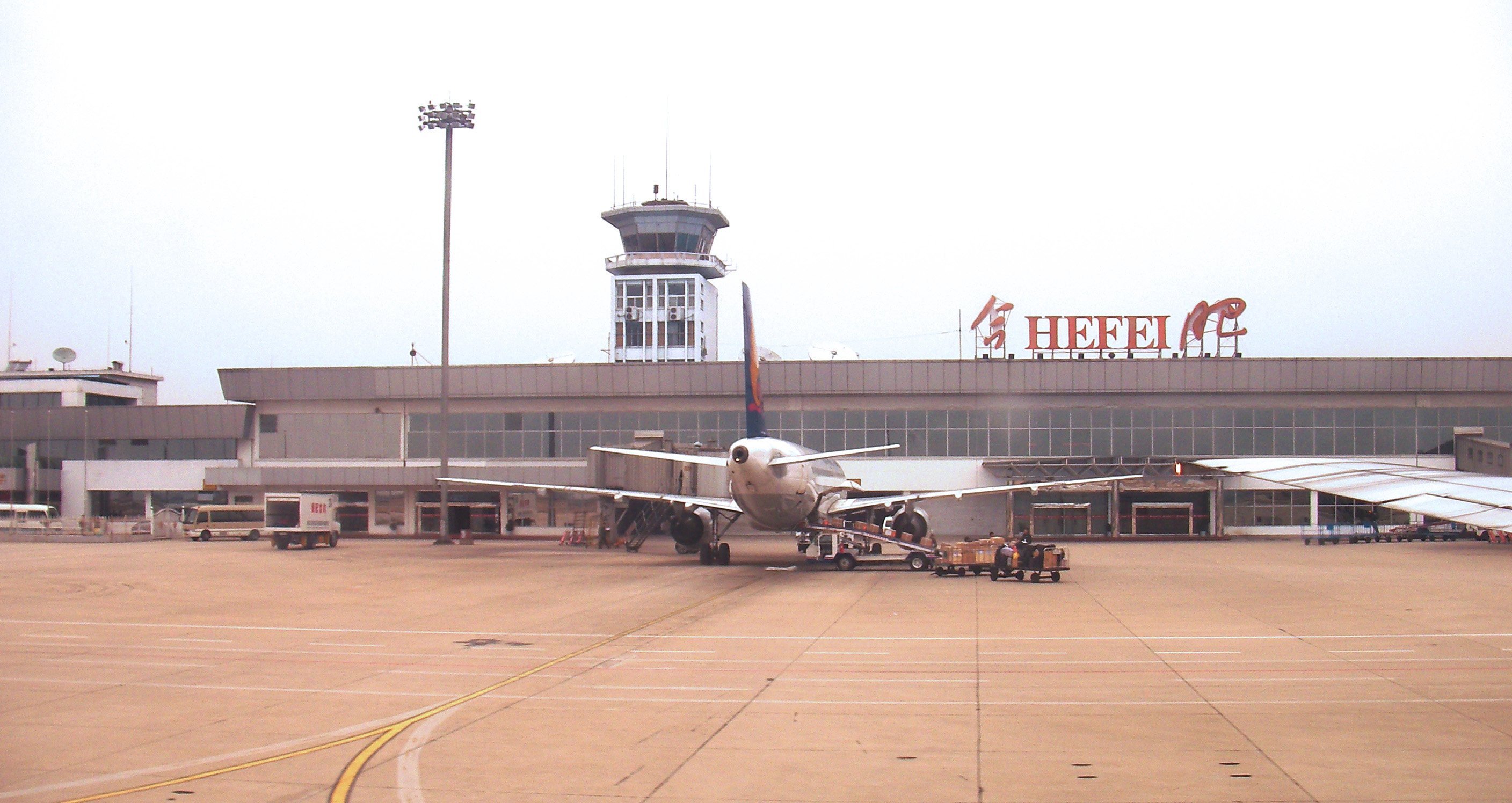 Hefei Luogang International Airport